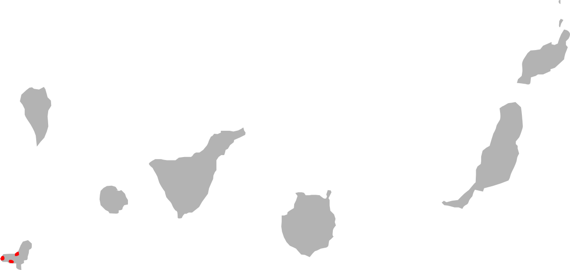 Gallotia simonyi distribution map.